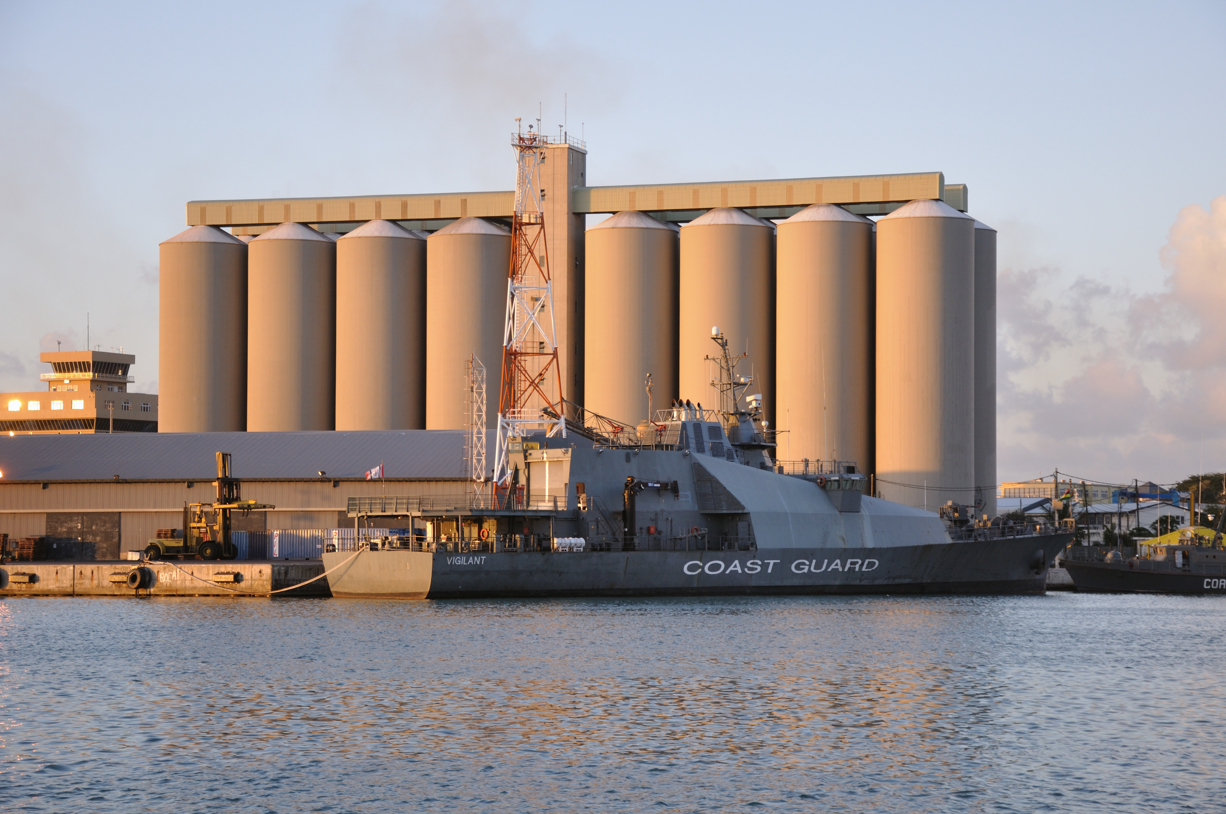 Mauritius, Evening at Port Louis waterfront